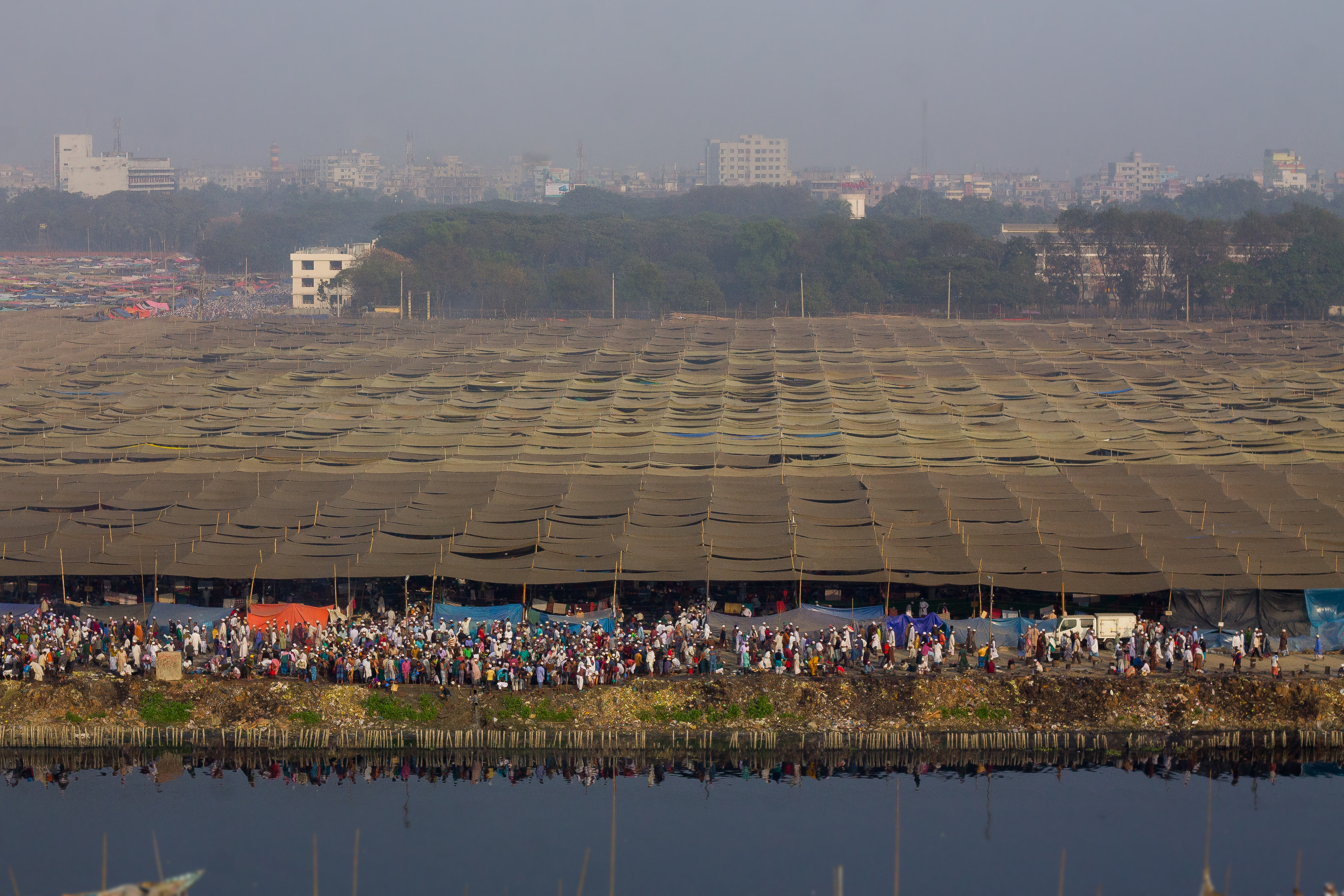 Congregation of Muslim, Tongi, Bangladesh